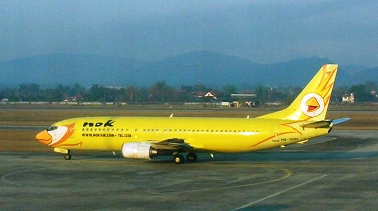 plane picture